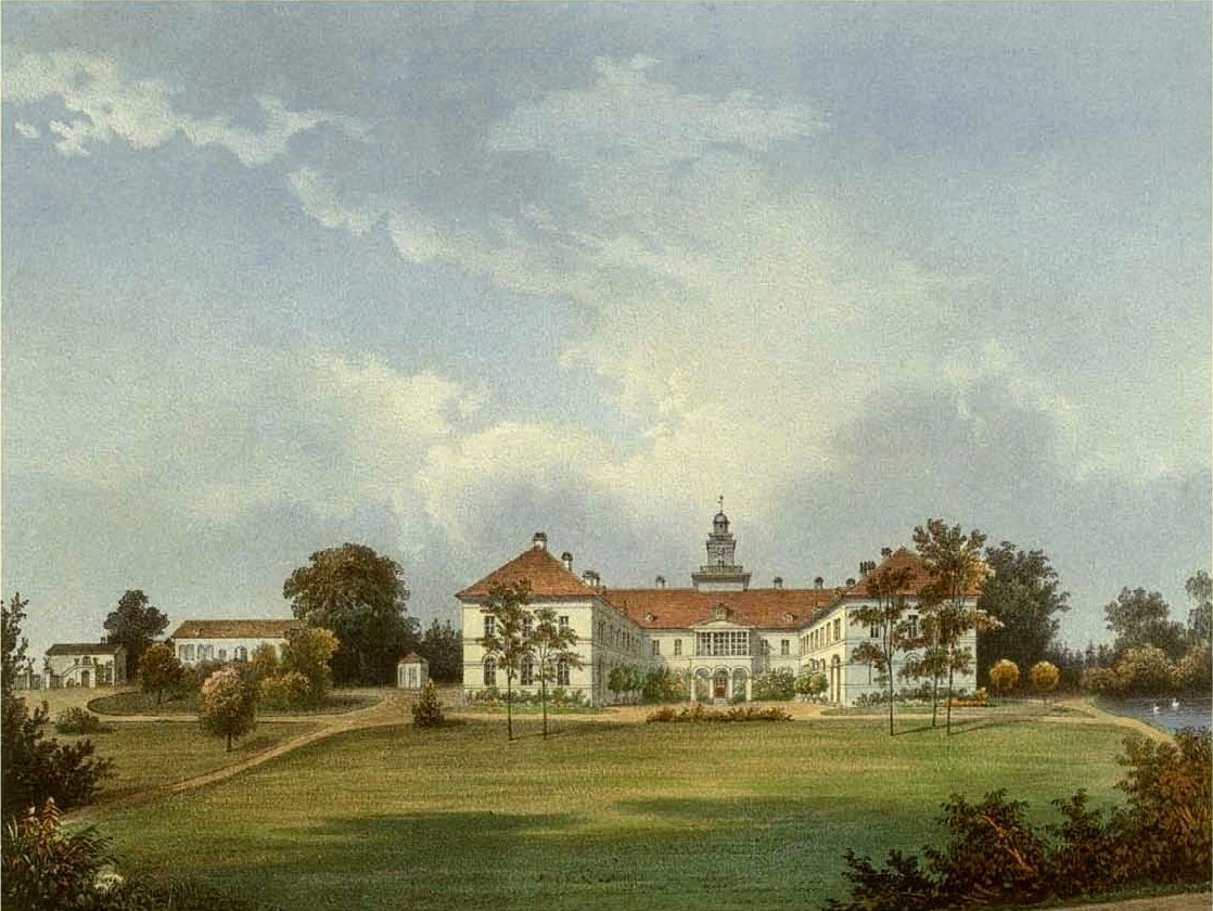 Palace in Tillowitz